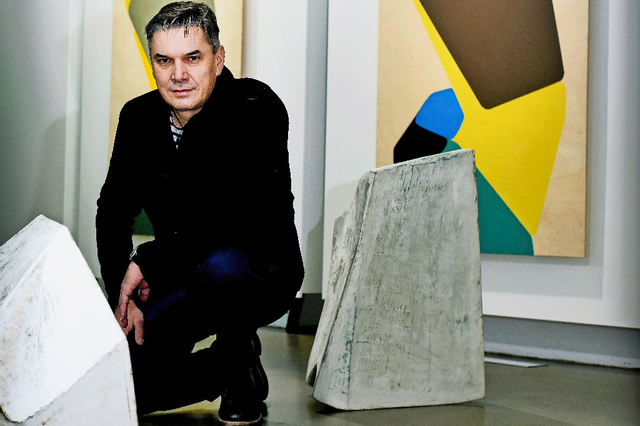 Philippe Lardy at his Life Form exhibition